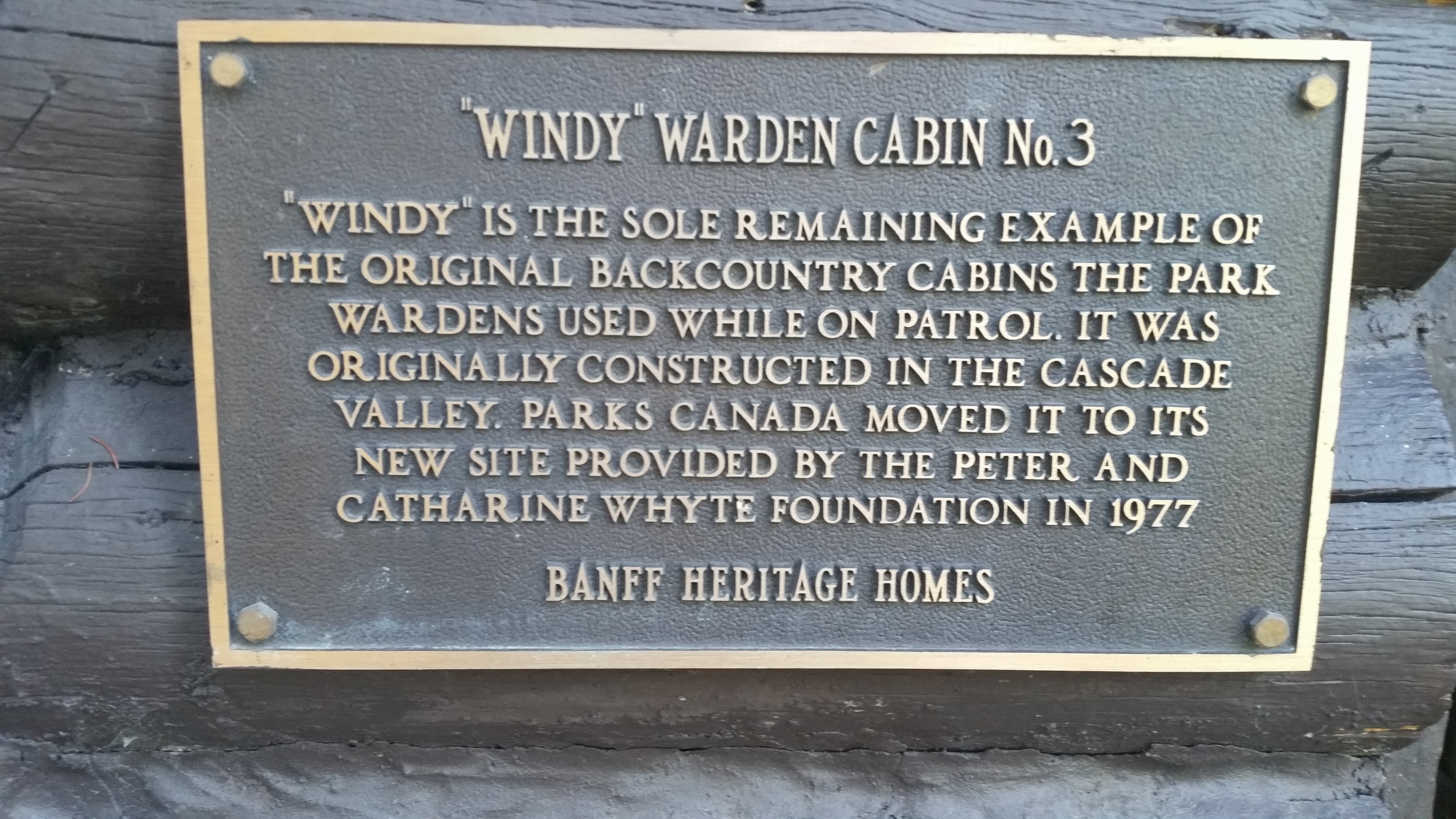 Label on the Windy Warden Cabin located on the Whyte Museum Property.